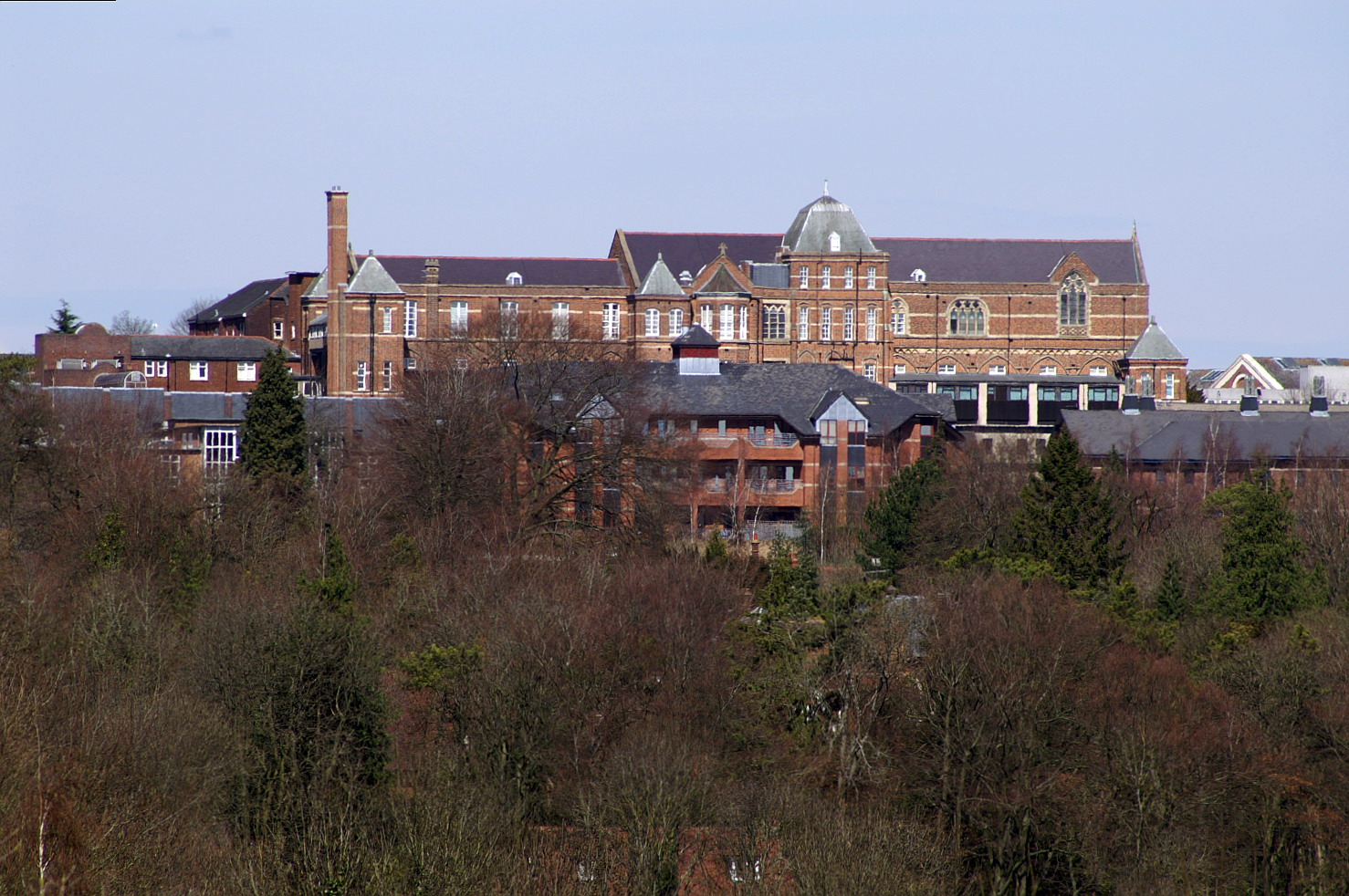 Royal Hampshire County Hospital, Winchester. Rear view of the original Victorian pile on Romsey Road, with modern buildings clothing the hill to the south. A telephoto view from Whiteshute Ridge (SU4627)